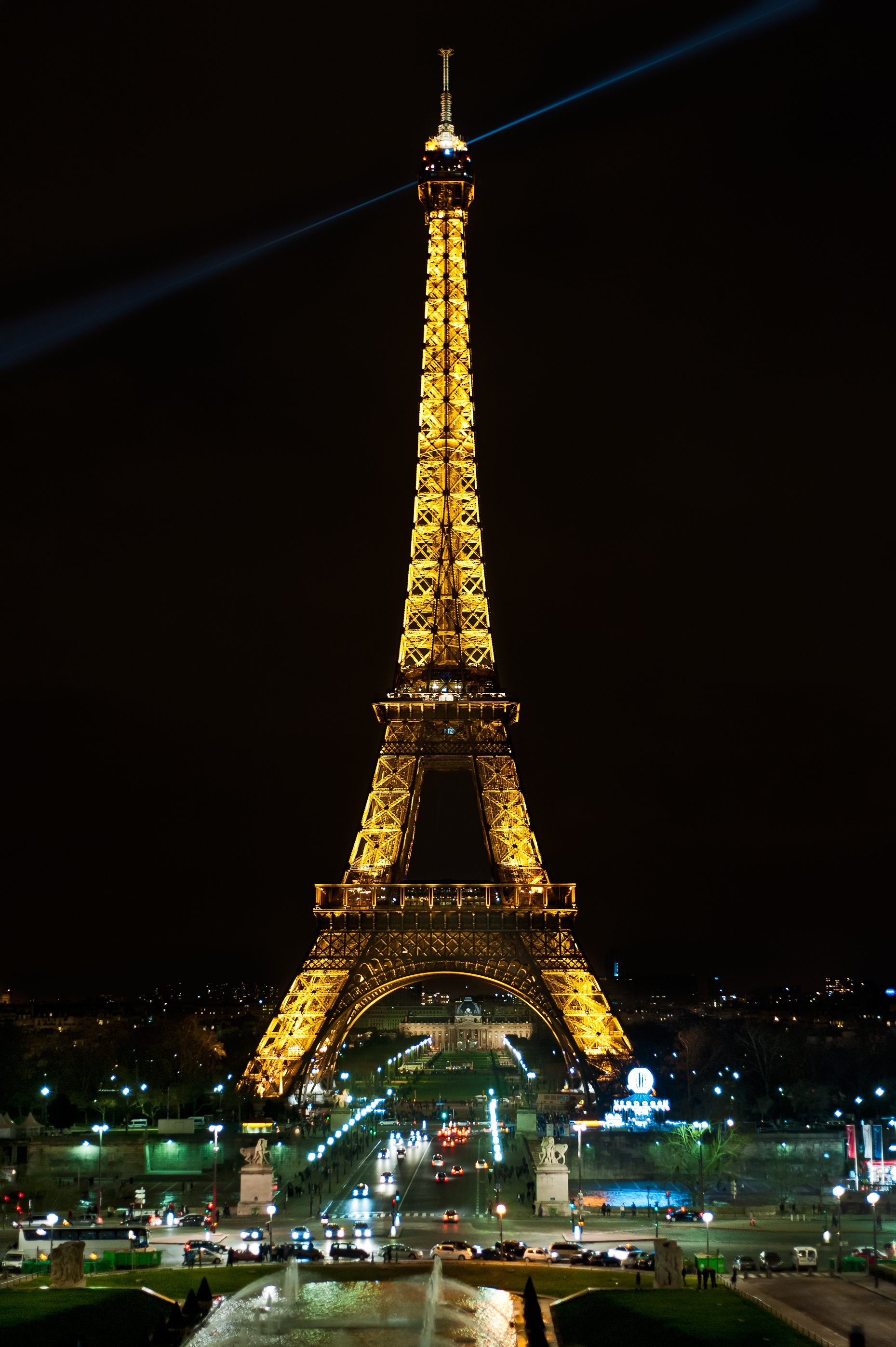 The Eiffel Tower (Tour Eiffel) at night, as seen from Place du Trocadéro.